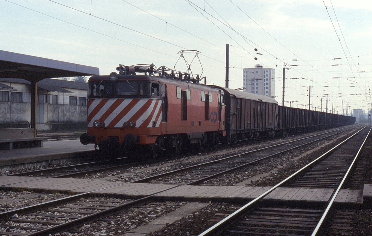 Class 2501 electric, no. 2507 at Aveiro passing through on a freight. Date taken, 10 November 1993.